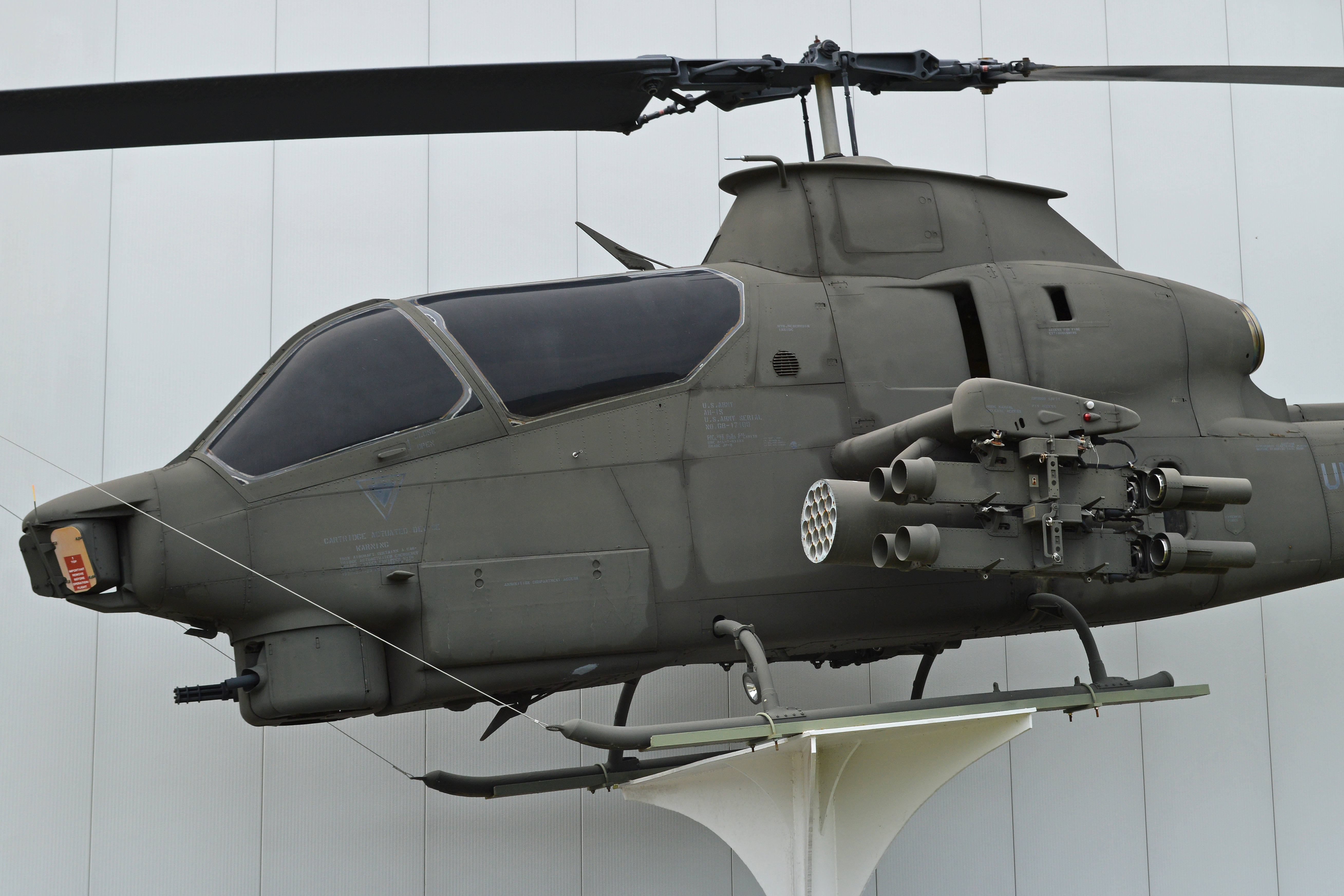 The AH-1S was an upgraded 'Q' with an 1,800shp engine. Full serial 68-17109. c/n 20837. US Army Aviation Museum. Fort Rucker. Alabama, USA. 17-4-2013